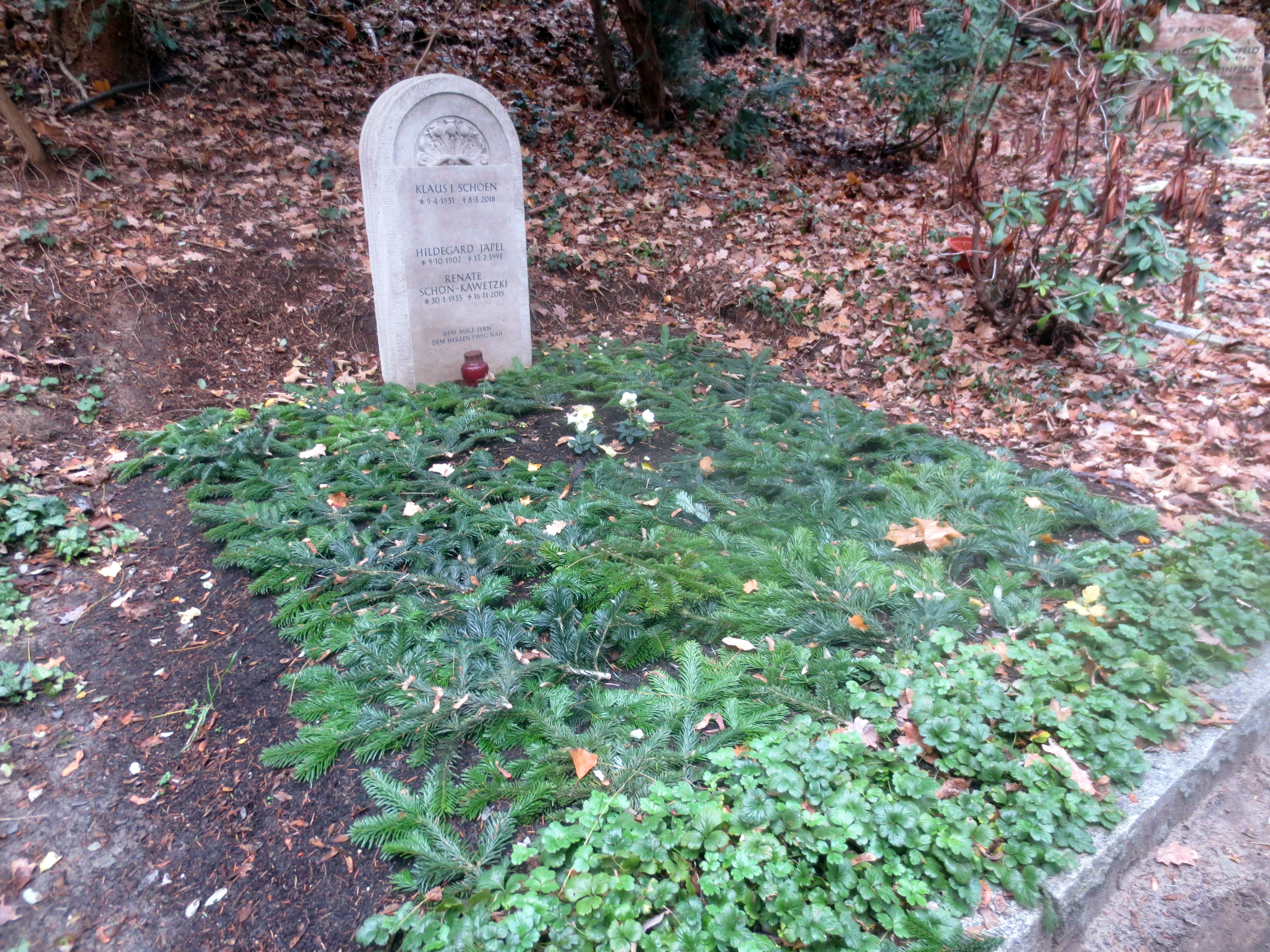 Grave of the painter Klaus J. Schoen (1931-2018) on the Friedhof Heerstraße cemetery in Berlin-Westend.